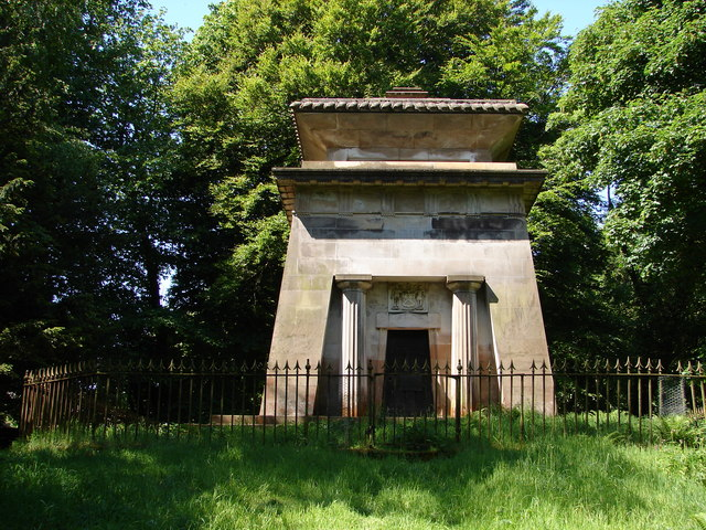 Douglas Mausoleum The Douglas Mausoleum dates from 1821; an extraordinary Aegypto-Grecian building N of Kelton Kirk, with pagoda roof, Doric portal and carved frieze. Ownership is unknown so legal possession is being sort for its care to come under Historic Scotland.